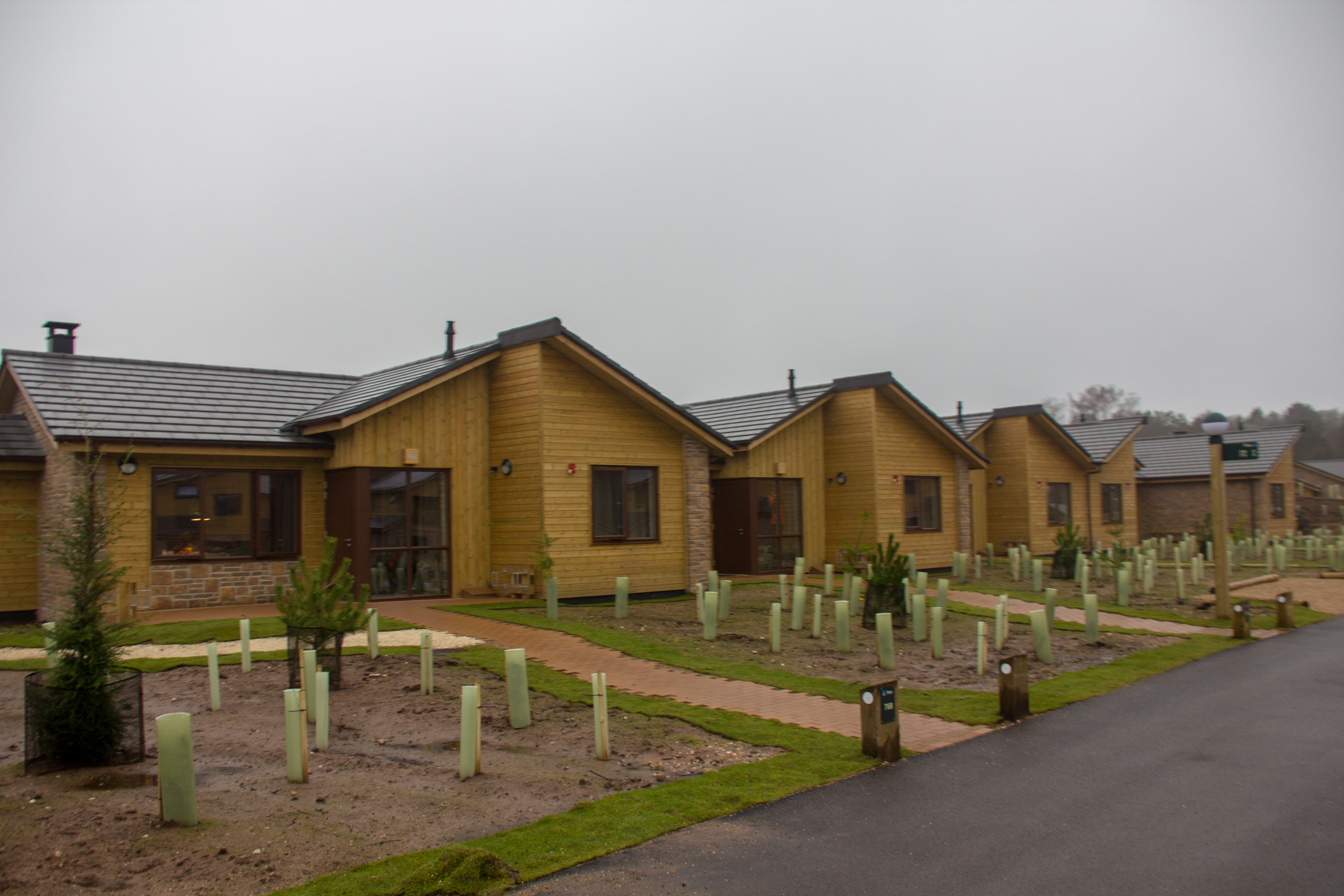 Center Parcs Sherwood Forest, UK